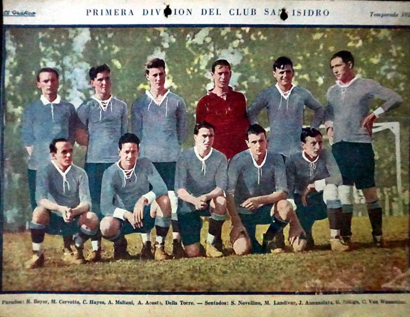 Argentine football Club Atlético San Isidro team, few years before its dissolution. The photo was published as a color-poster by El Gráfico sports magazine.